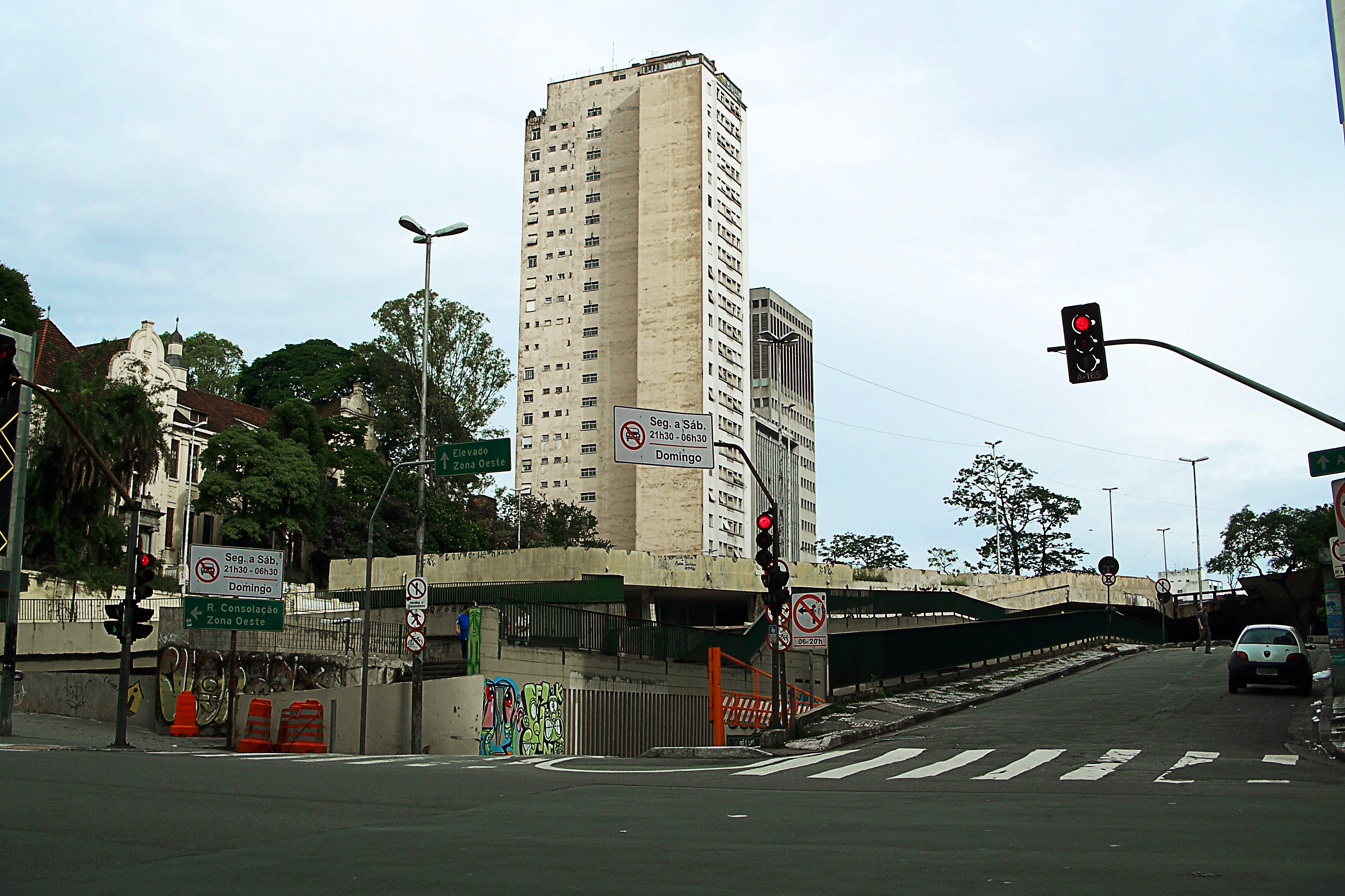 Roosevelt Square in São Paulo, viewed from the corner of Martinho Prado and Martins Fontes.